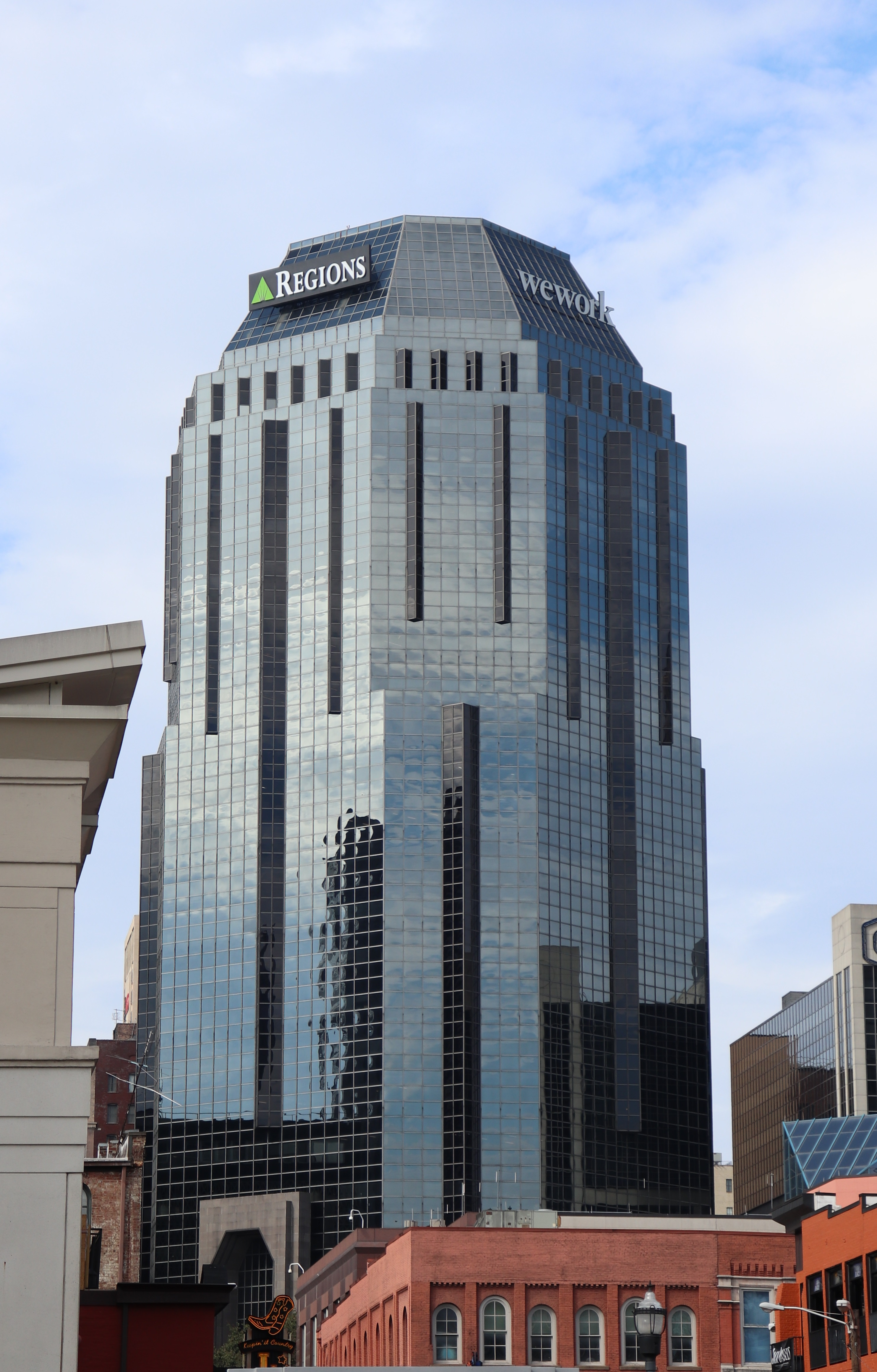 One Nashville Place in 2019.